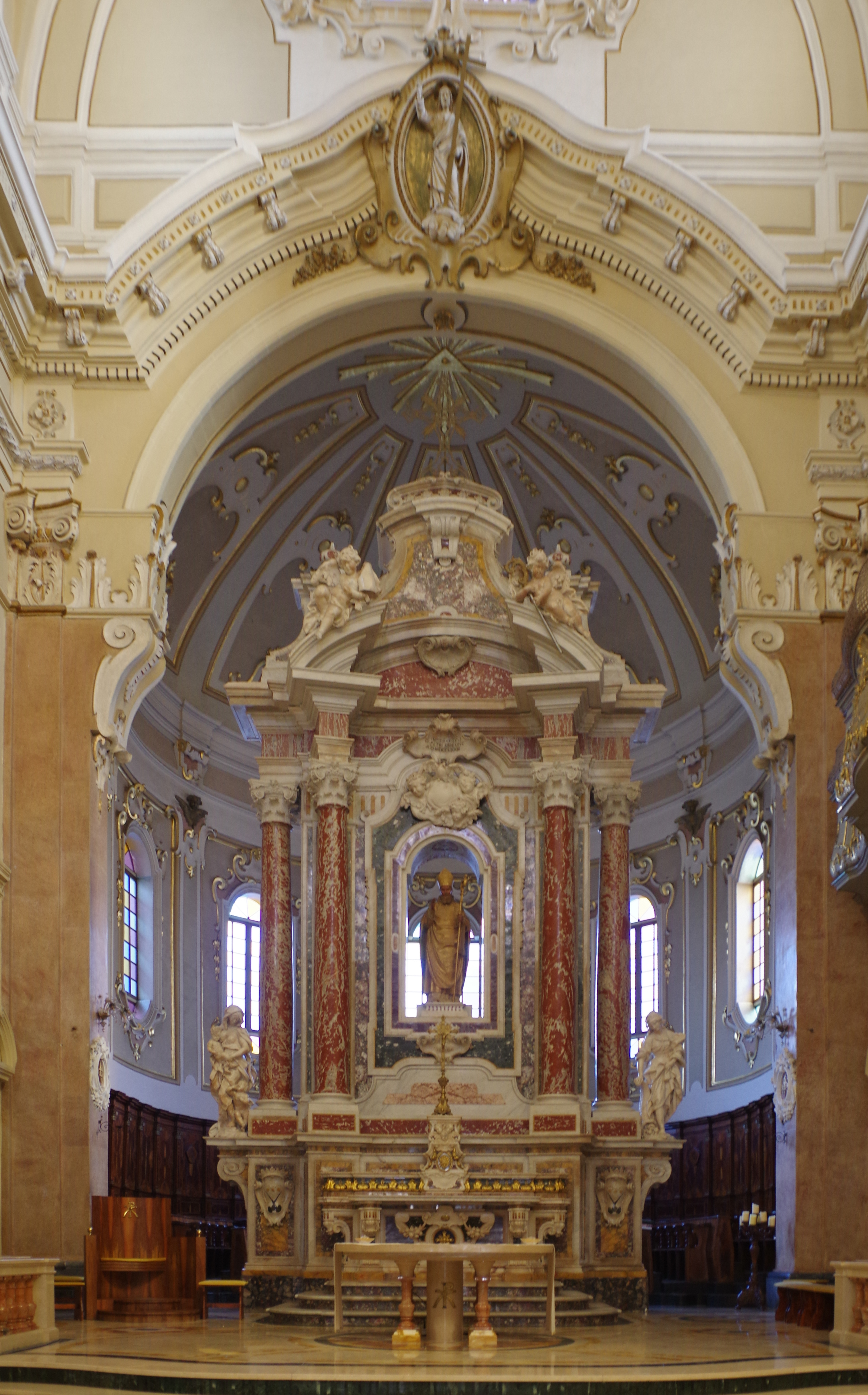 Italy, Martina Franca, San Martino